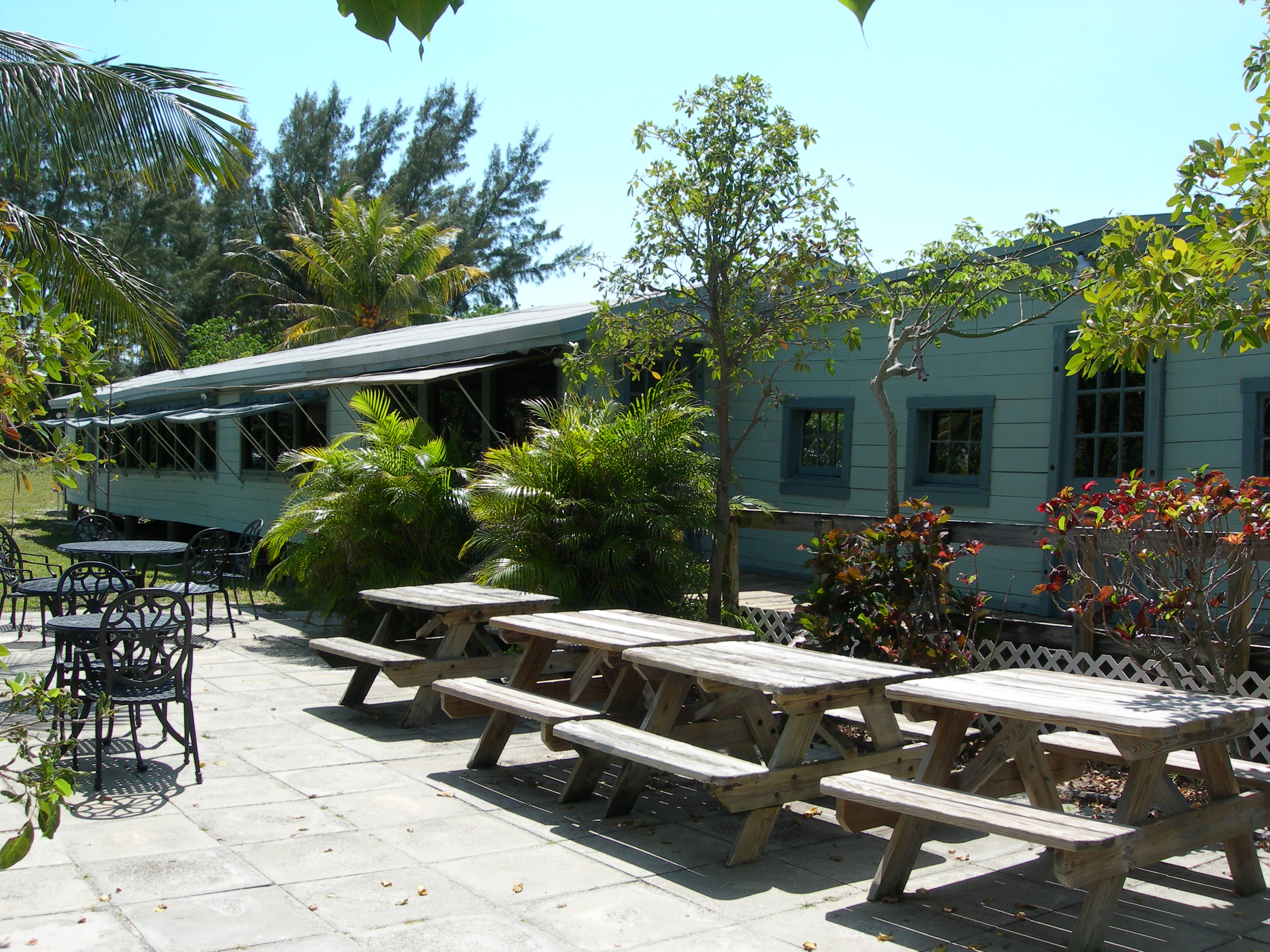 Cap's Place in Lighthouse Point, Florida, listed on the National Register of Historic Places.